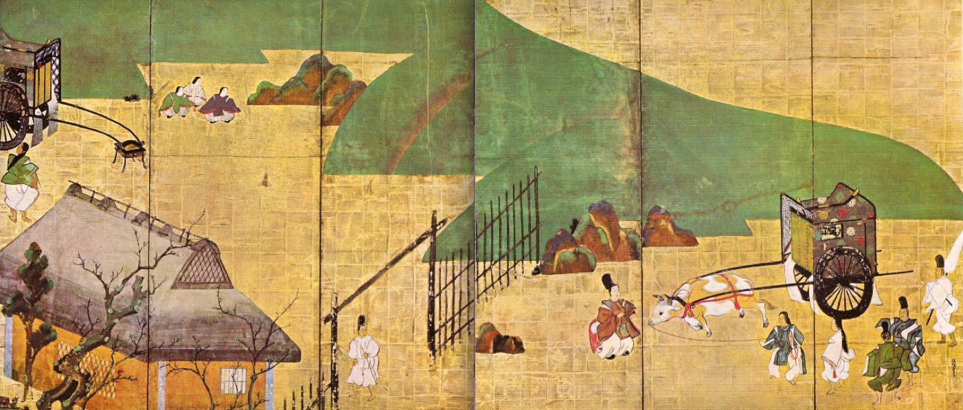 "Sekiya Scene of The Tale of Genji" by the Japanese painter Tawaraya Sōtatsu (Rinpa school) of the sixteenth and seventeenth centuries, painted in the early seventeenth century. Six fold screen, gold and colors on paper - (H. 152 ; W. 355 cm). Seikadō Bunko Art Museum, Tokyo. [1]